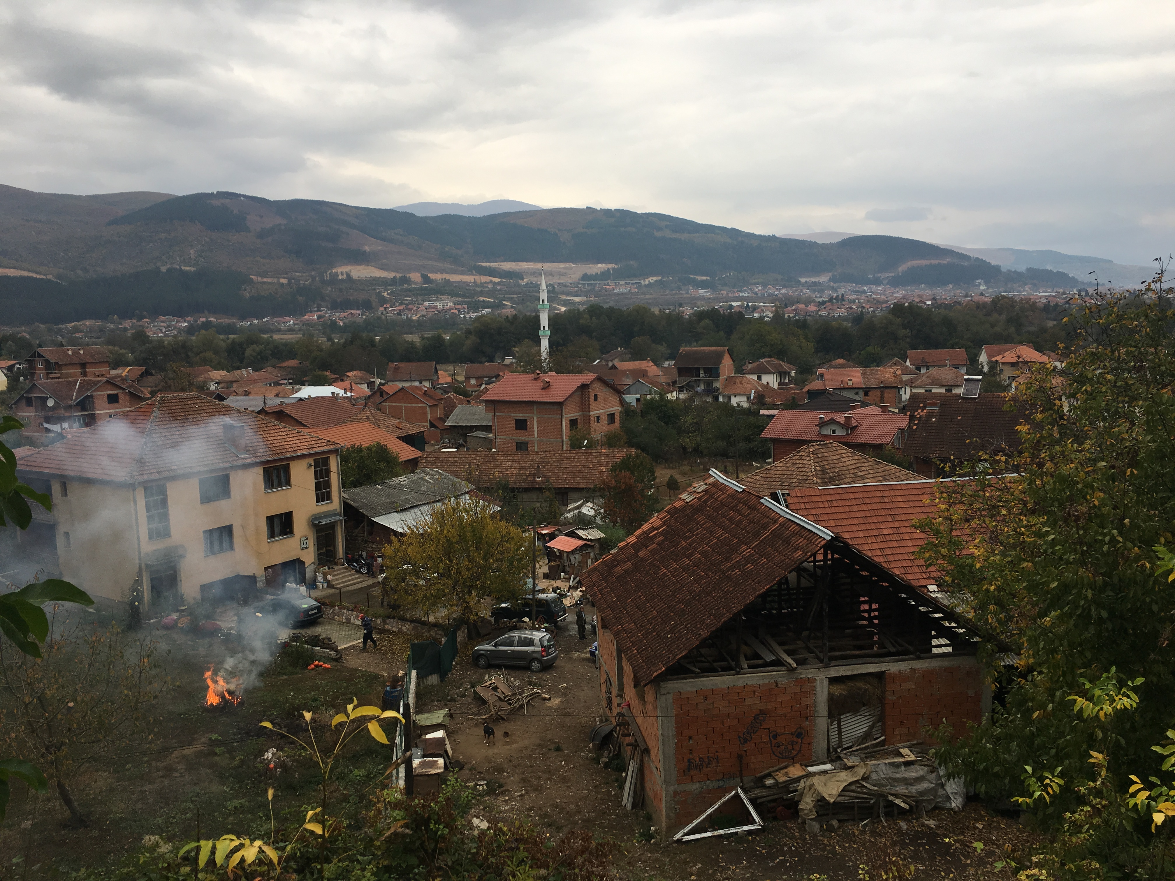 Wikiexpedition to Kopačka